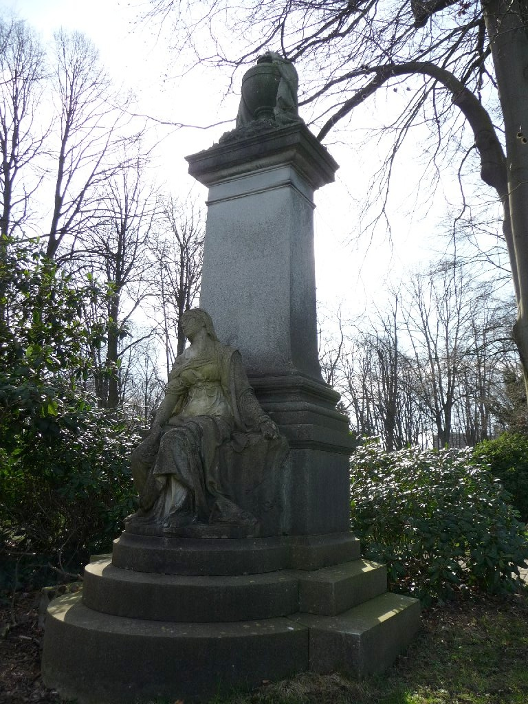 Tomb of Josef J. A. Hachez, graveyard Riensberg in Bremen